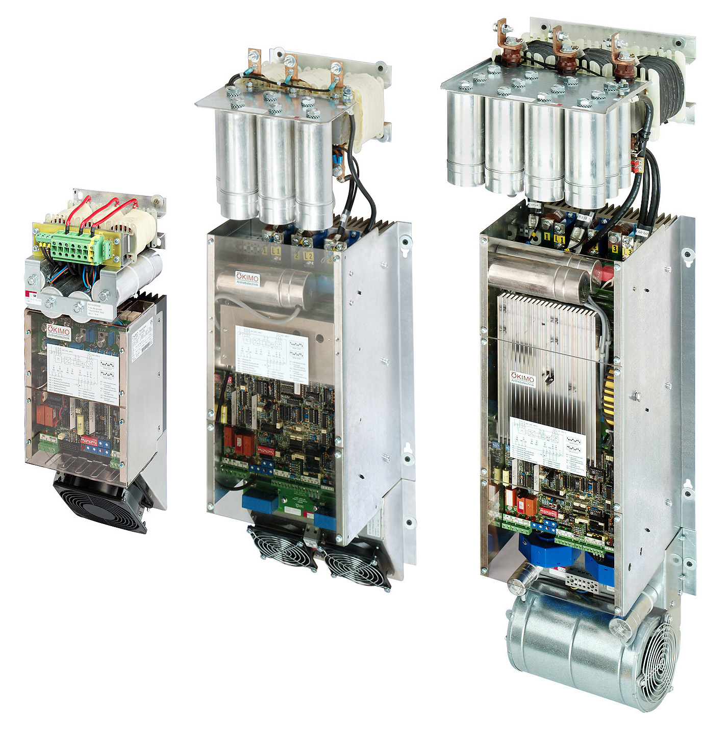 Example of regenerative drives.